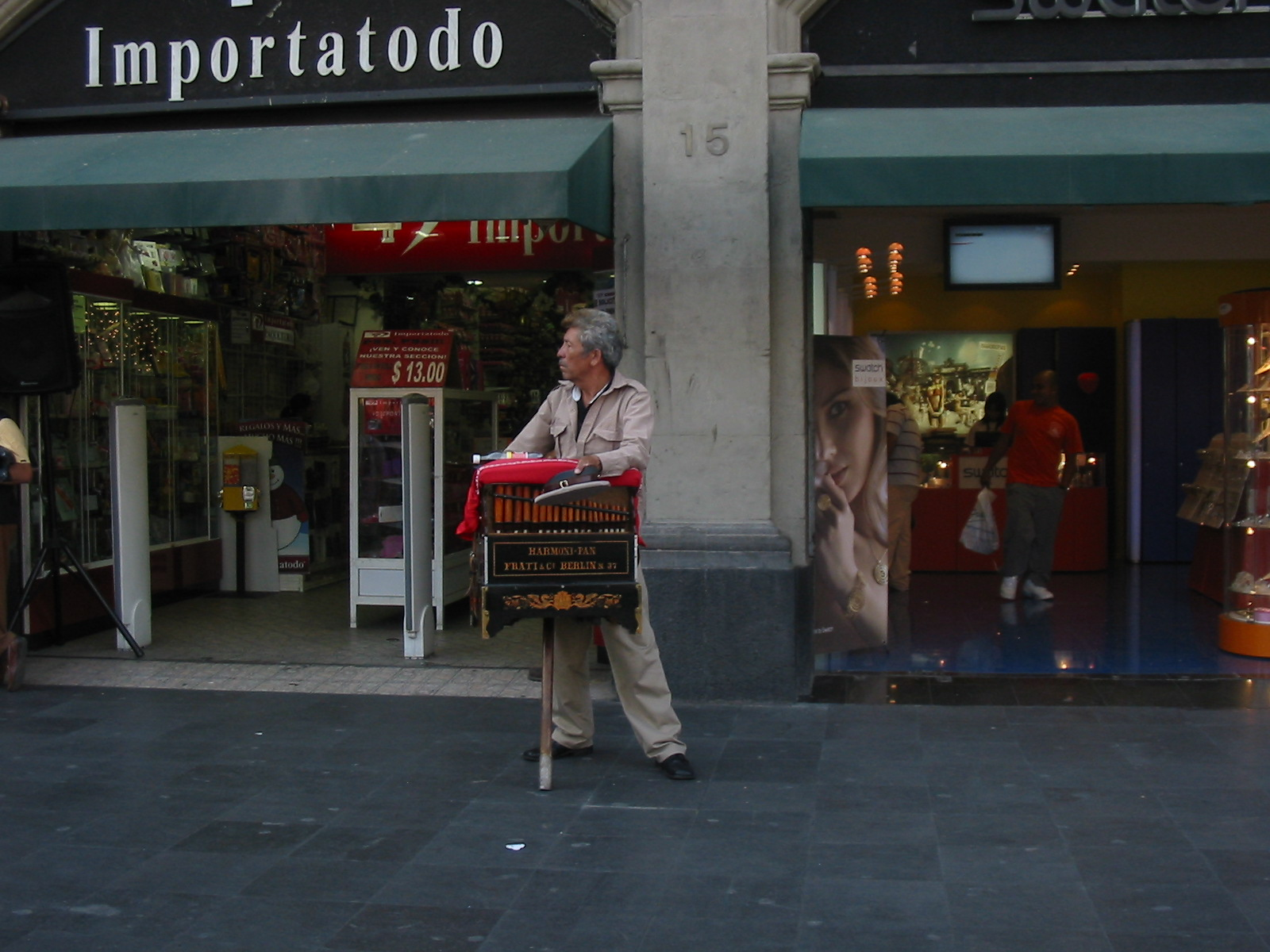 Hurdy gurdy or barrel organ player in the Zocalo Mexico City